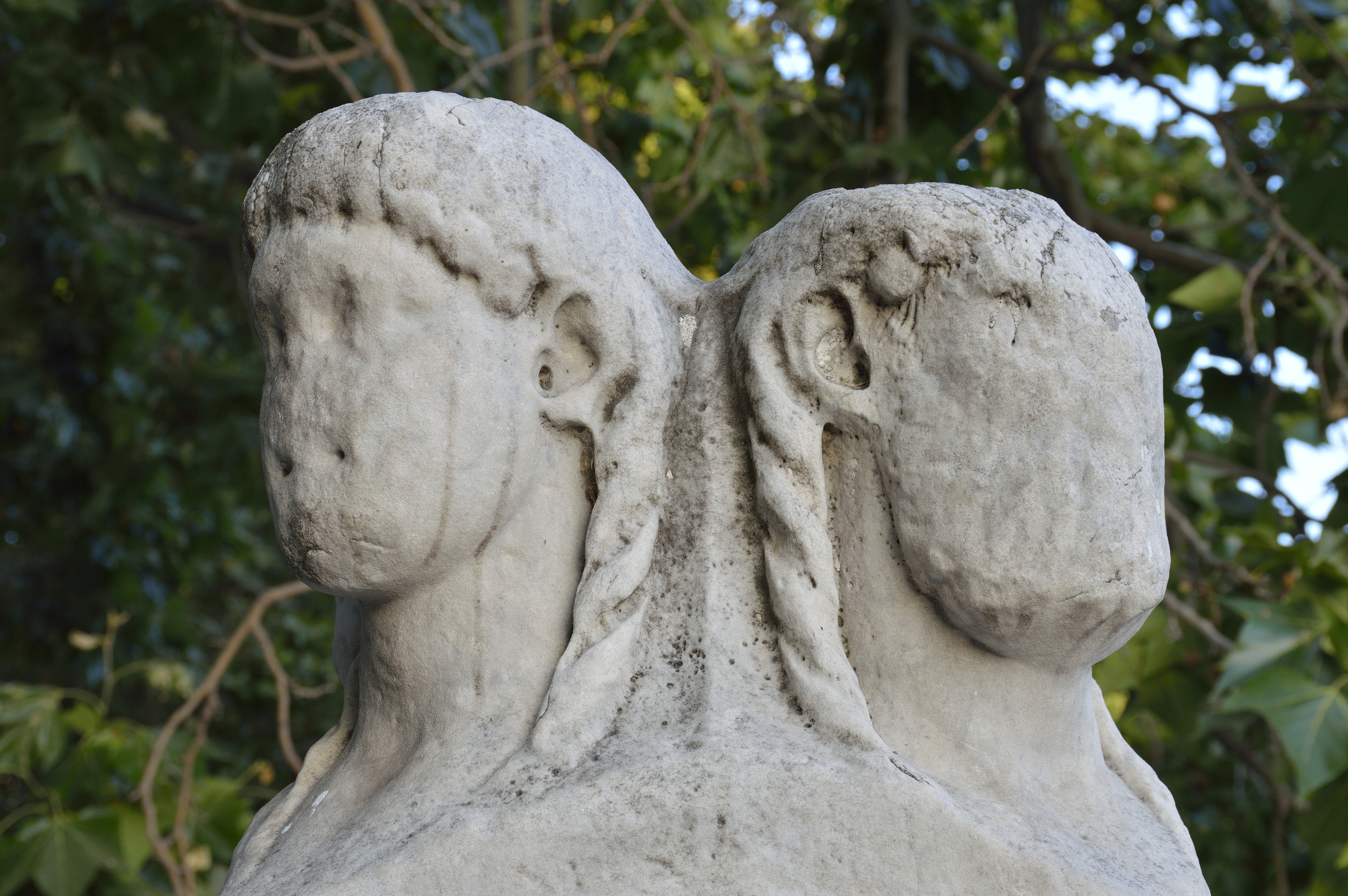 Statues on Ponte Fabricio in Rome